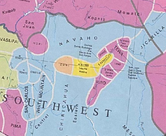 Early Native American tribal territories, in the present day Western United States.